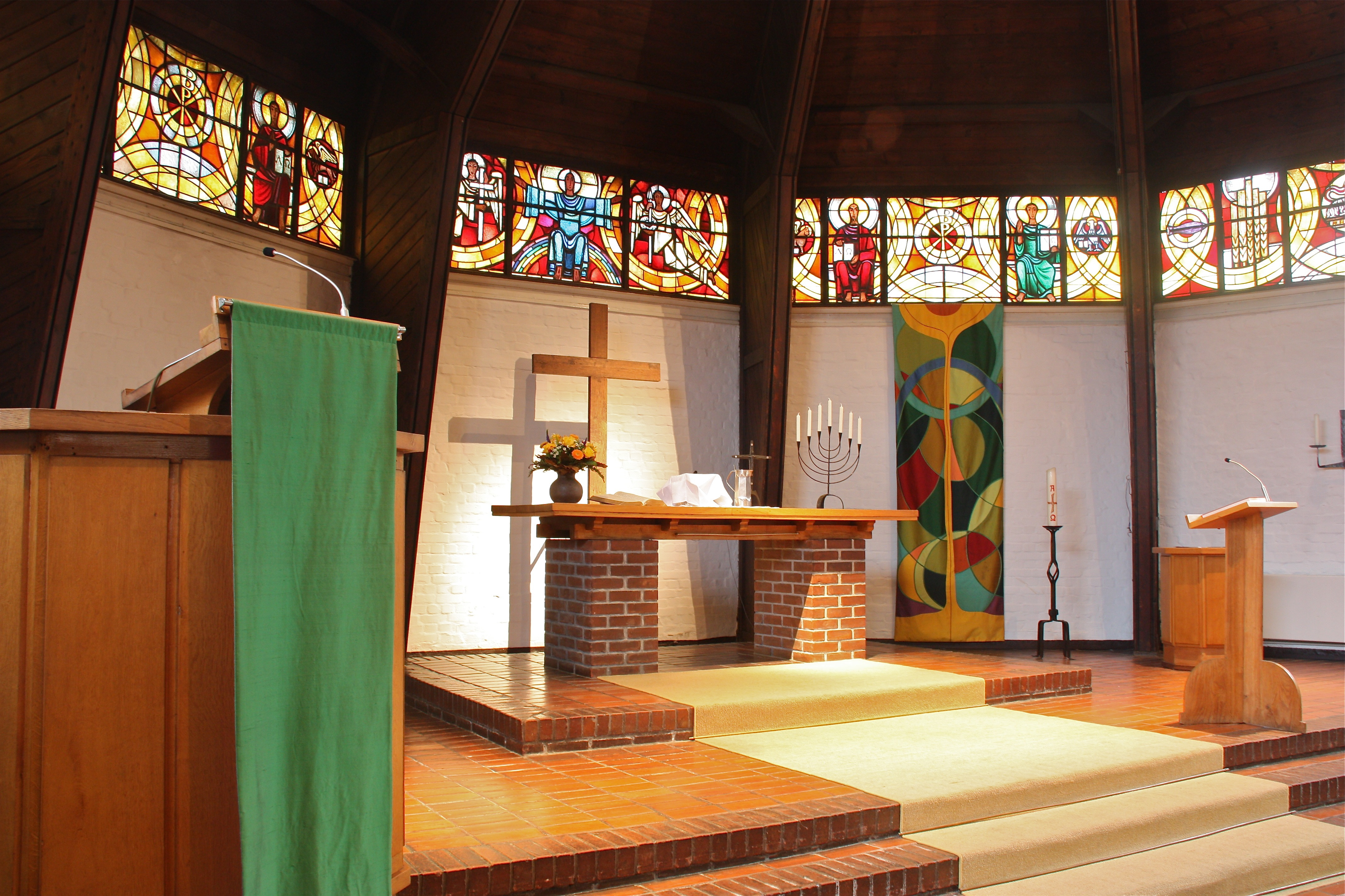 Altar and windows in the Adventchurch in Hamburg-Schnelsen, Germany